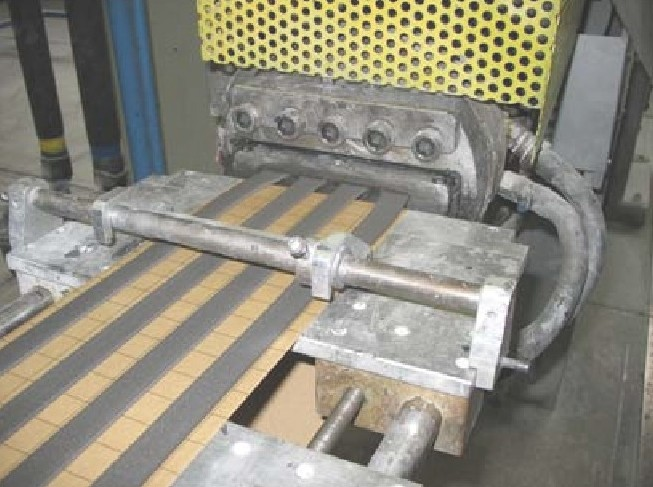 Producing 4 laces by extrusion.